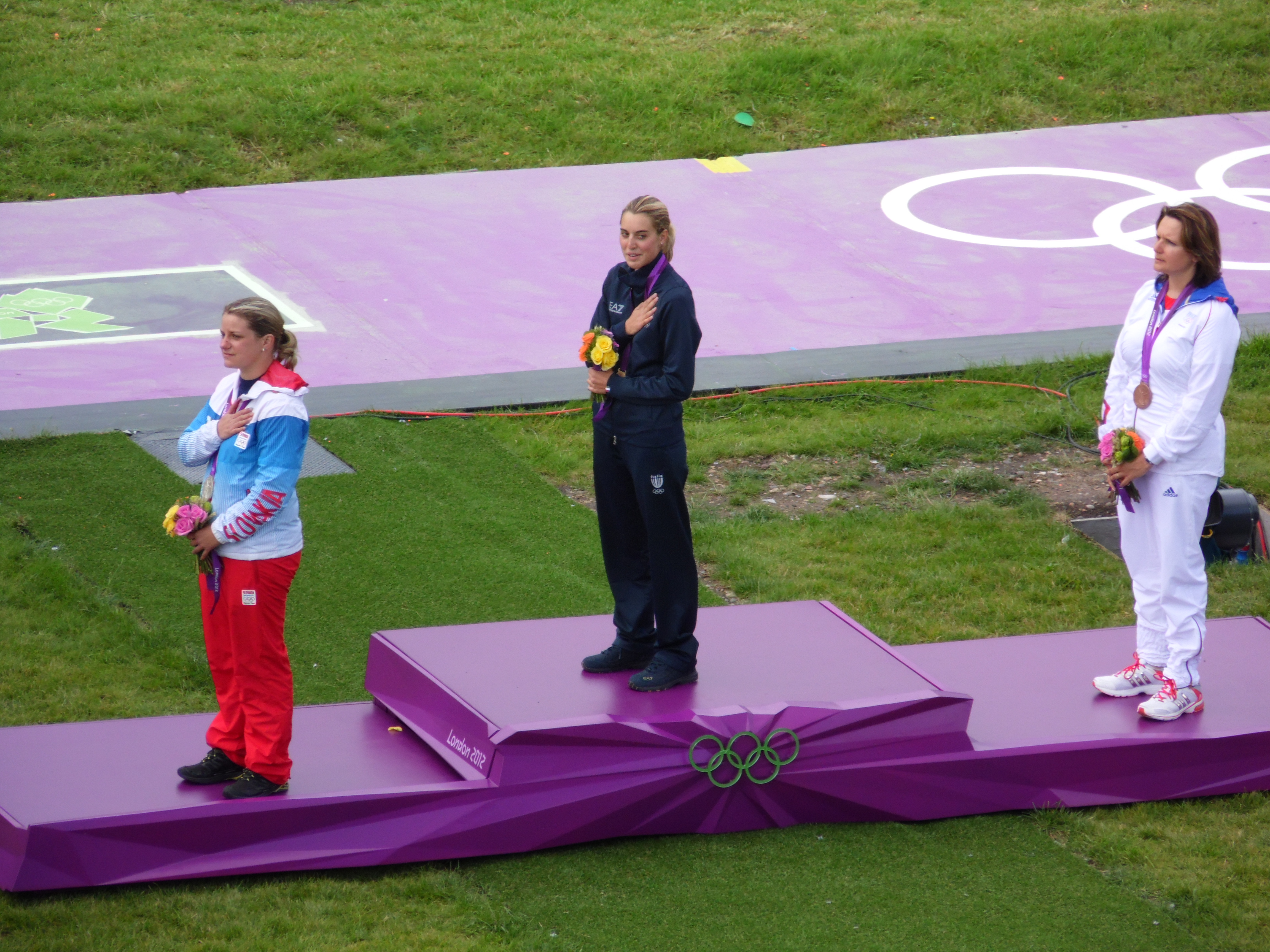 Jessica Rossi picking up gold in the London 2012 Olympic trap shooting